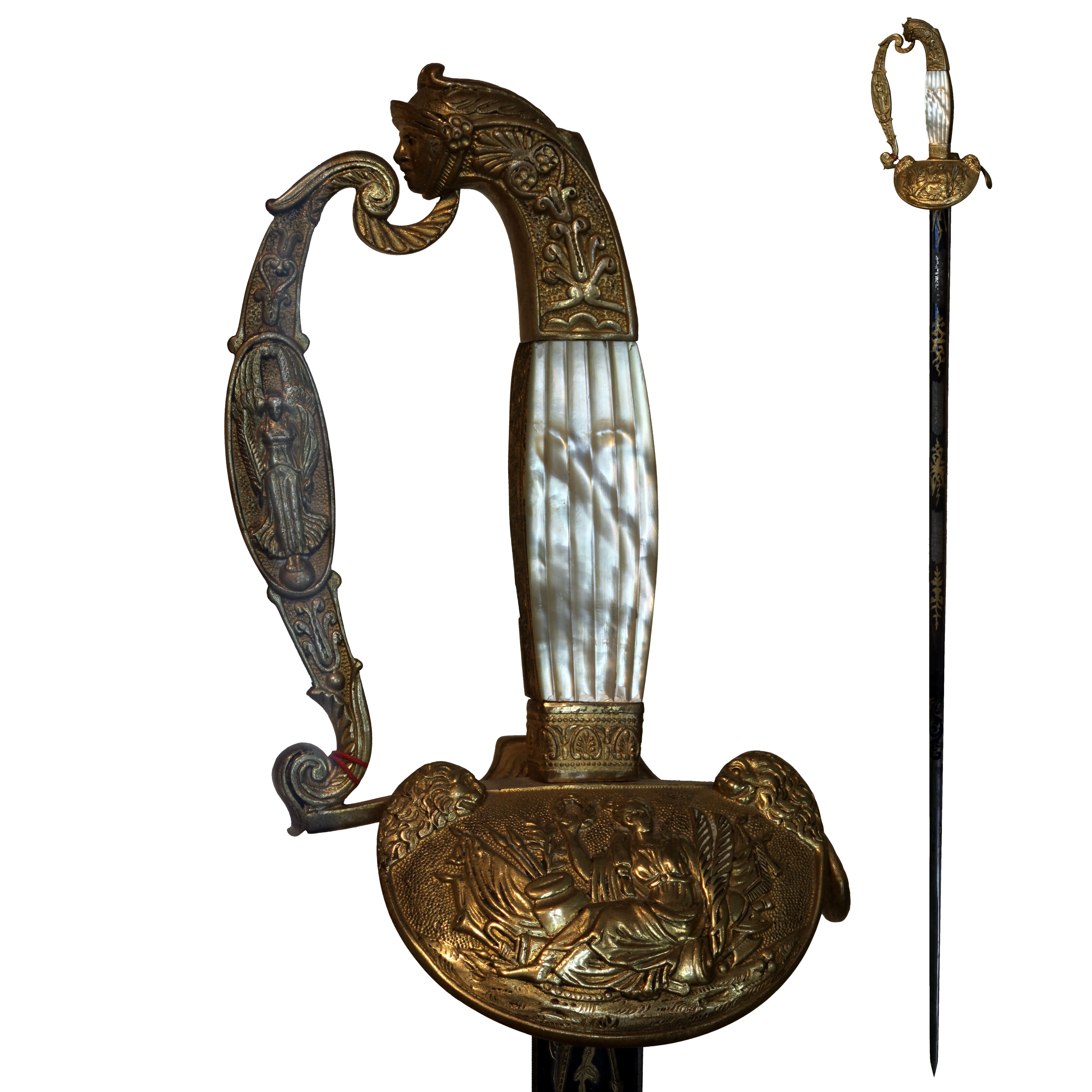 Officer sword, France, 19th century. On display at Vevey historical museum, accession number 407.